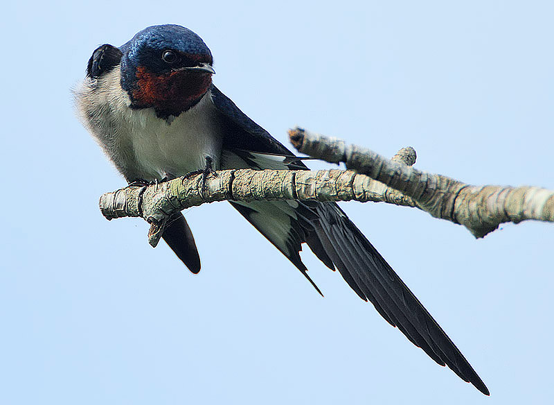 Image taken at Makasutu, The Gambia. An adult male perched on top of a Red Mangrove. This species is distinguished from Barn Swallow by the extensive white on the undertail, slightly smaller size, shorter tail streamers and the narrow dark breastband which is notched or incomplete in the centre.